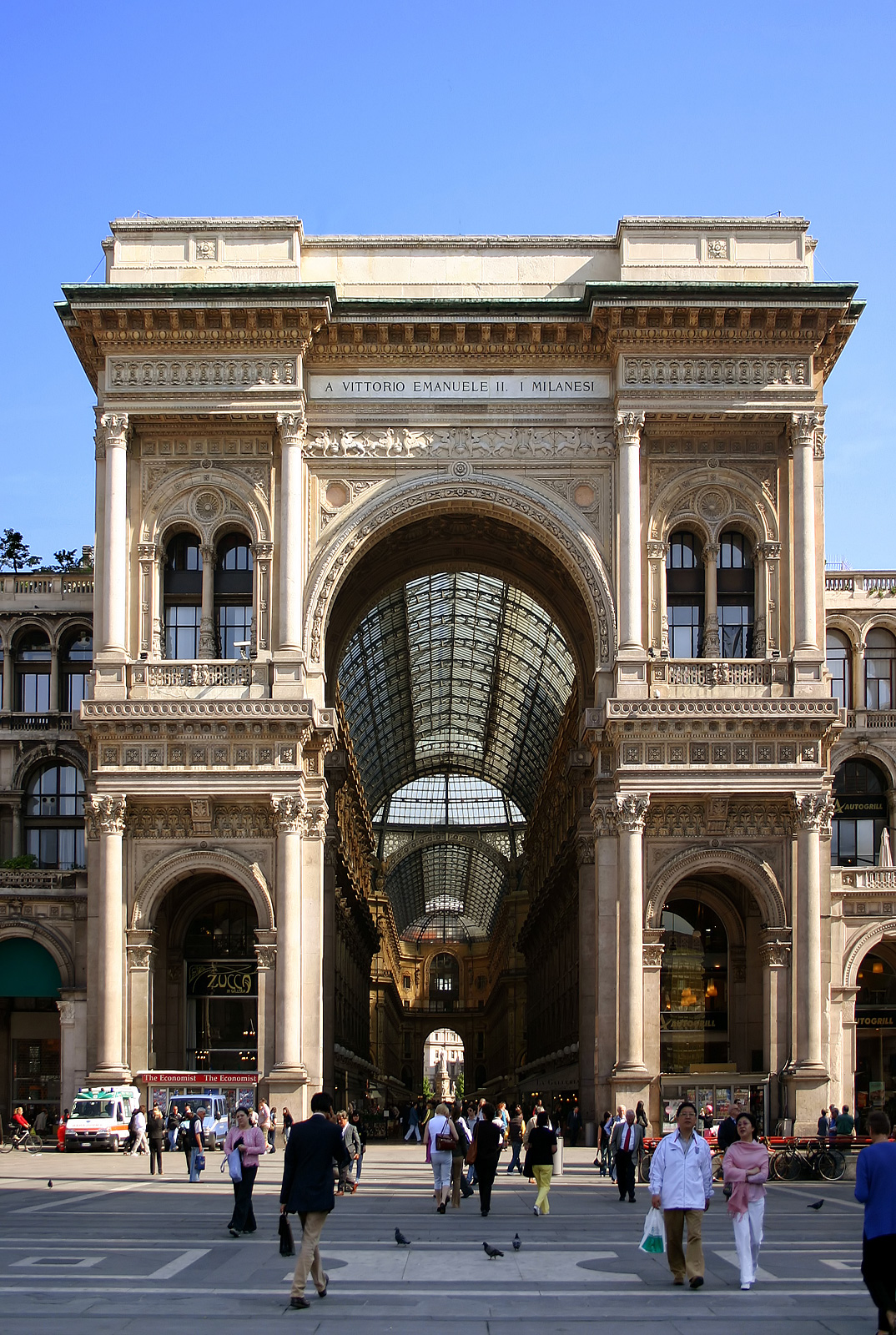 View of the triumphal arch of the Gallery Vittorio Emanuele II towards Piazza Duomo Square in Milan, Italy.